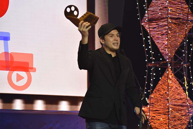 Paul Soriano claims the Best Director award at the 2017 MMFF Awarding Night for Siargao.